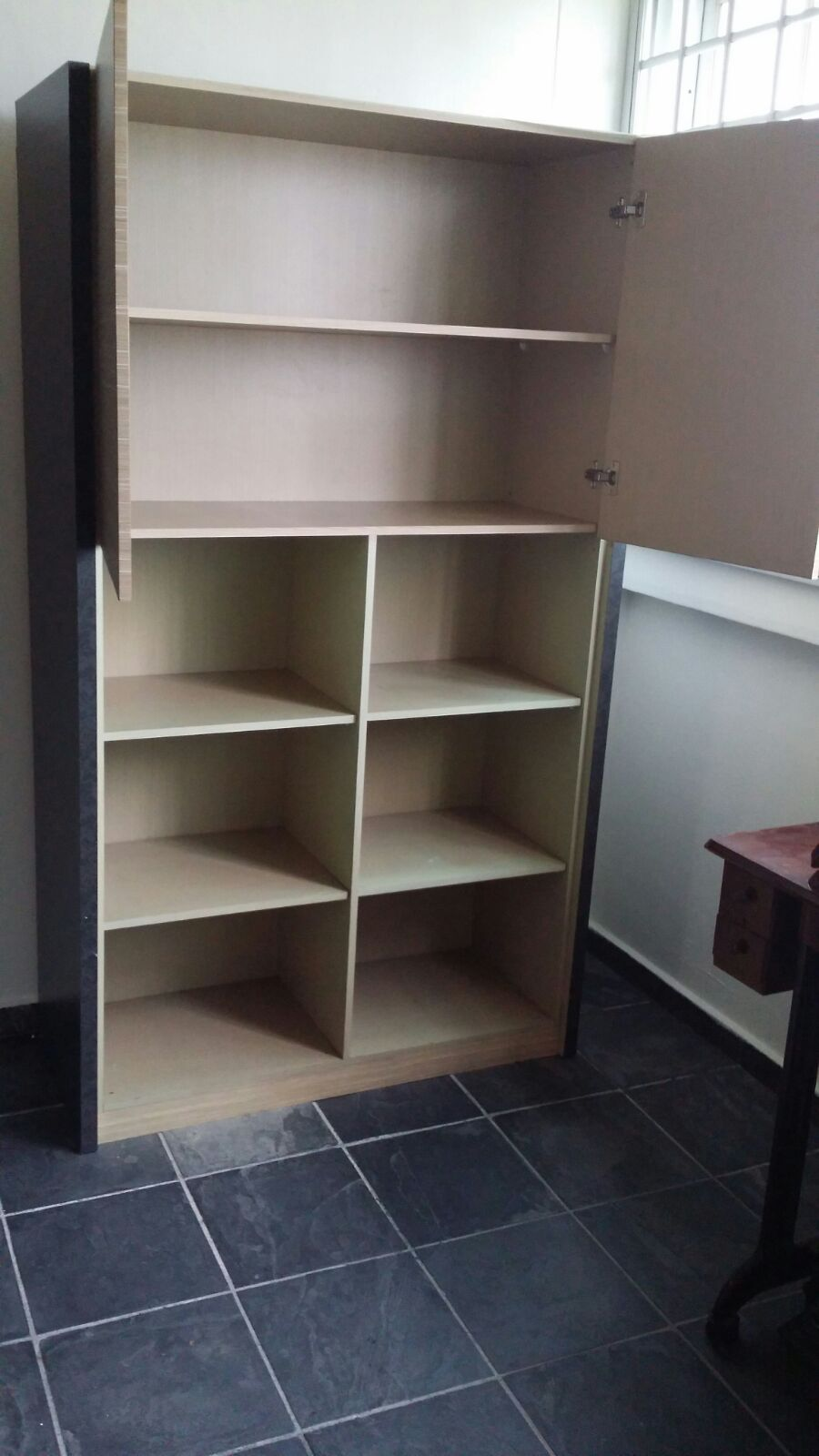 An empty bookcase.